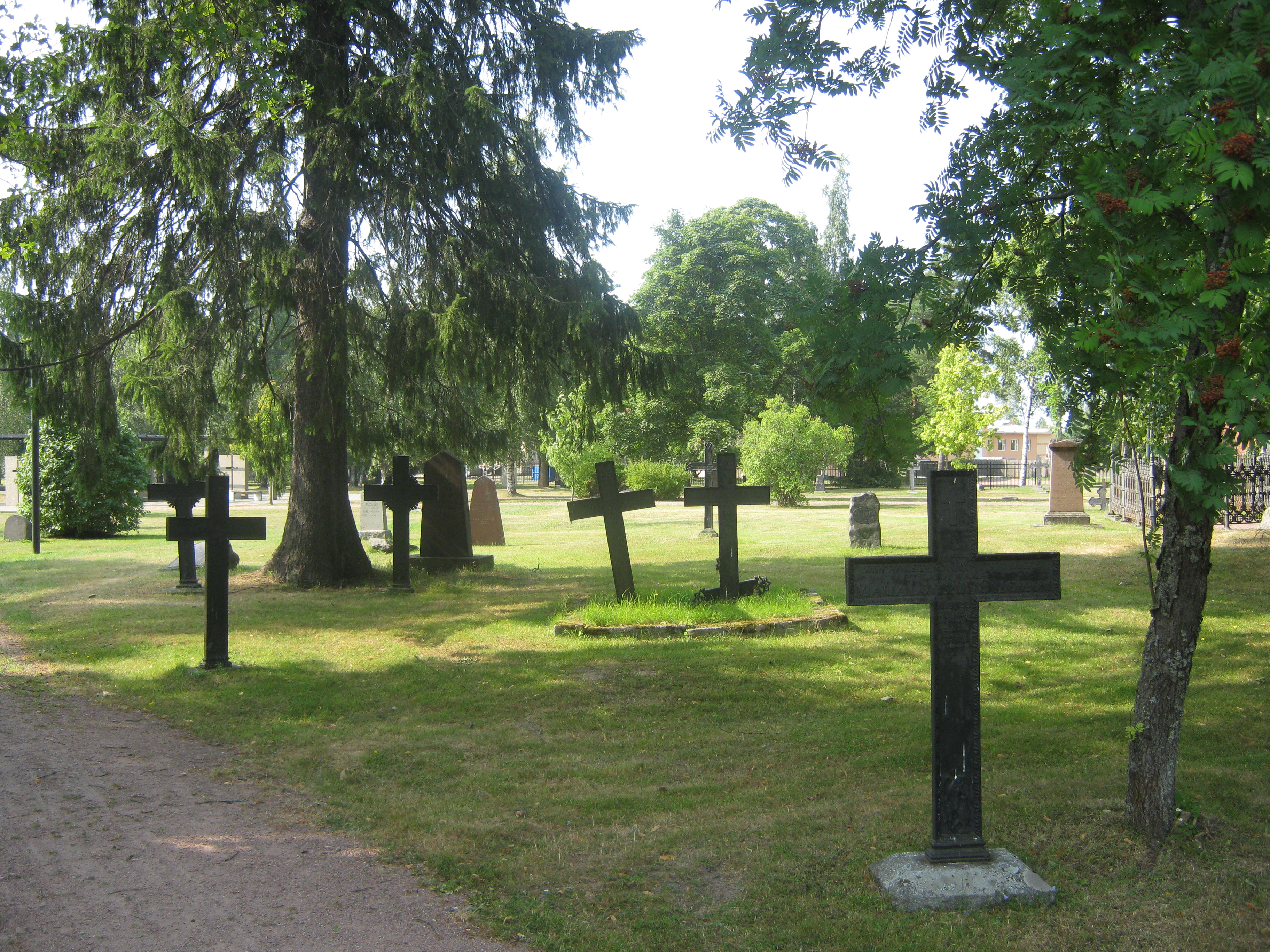 Old Cemetery of Pori, Finland.